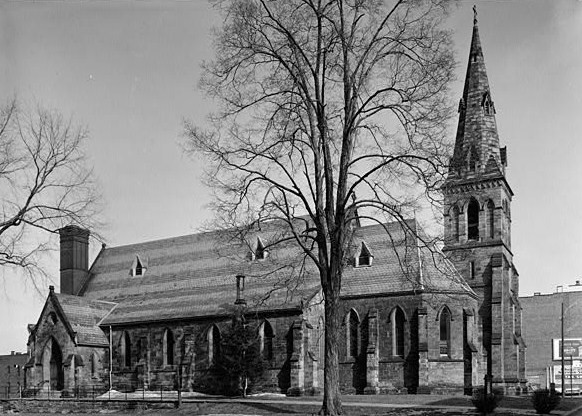 Christ Church, Binghamton — Washington & Henry Streets, Binghamton (Broome County, New York). 1963 image from HABS—Historic American Buildings Survey of New York, (cropped). This file comes from the Historic American Buildings Survey (HABS), Historic American Engineering Record (HAER) or Historic American Landscapes Survey (HALS). These are programs of the National Park Service established for the purpose of documenting historic places. Records consist of measured drawings, archival photographs, and written reports. When reusing please credit: Library of Congress, Prints & Photographs Division, NY,4-BING,10-1 This tag does not indicate the copyright status of the attached work. A normal copyright tag is still required. See Commons:Licensing. This work is in the public domain in the United States because it is a work prepared by an officer or employee of the United States Government as part of that person’s official duties under the terms of Title 17, Chapter 1, Section 105 of the US Code. Note: This only applies to original works of the Federal Government and not to the work of any individual U.S. state, territory, commonwealth, county, municipality, or any other subdivision. This template also does not apply to postage stamp designs published by the United States Postal Service since 1978. (See § 313.6(C)(1) of Compendium of U.S. Copyright Office Practices). It also does not apply to certain US coins; see The US Mint Terms of Use. This file has been identified as being free of known restrictions under copyright law, including all related and neighboring rights. Object location42° 06′ 01″ N, 75° 54′ 50″ W